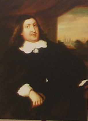 Ulrich II. Cirksena, unsigned portrait. See this article on the image's restoration for further information (in German).